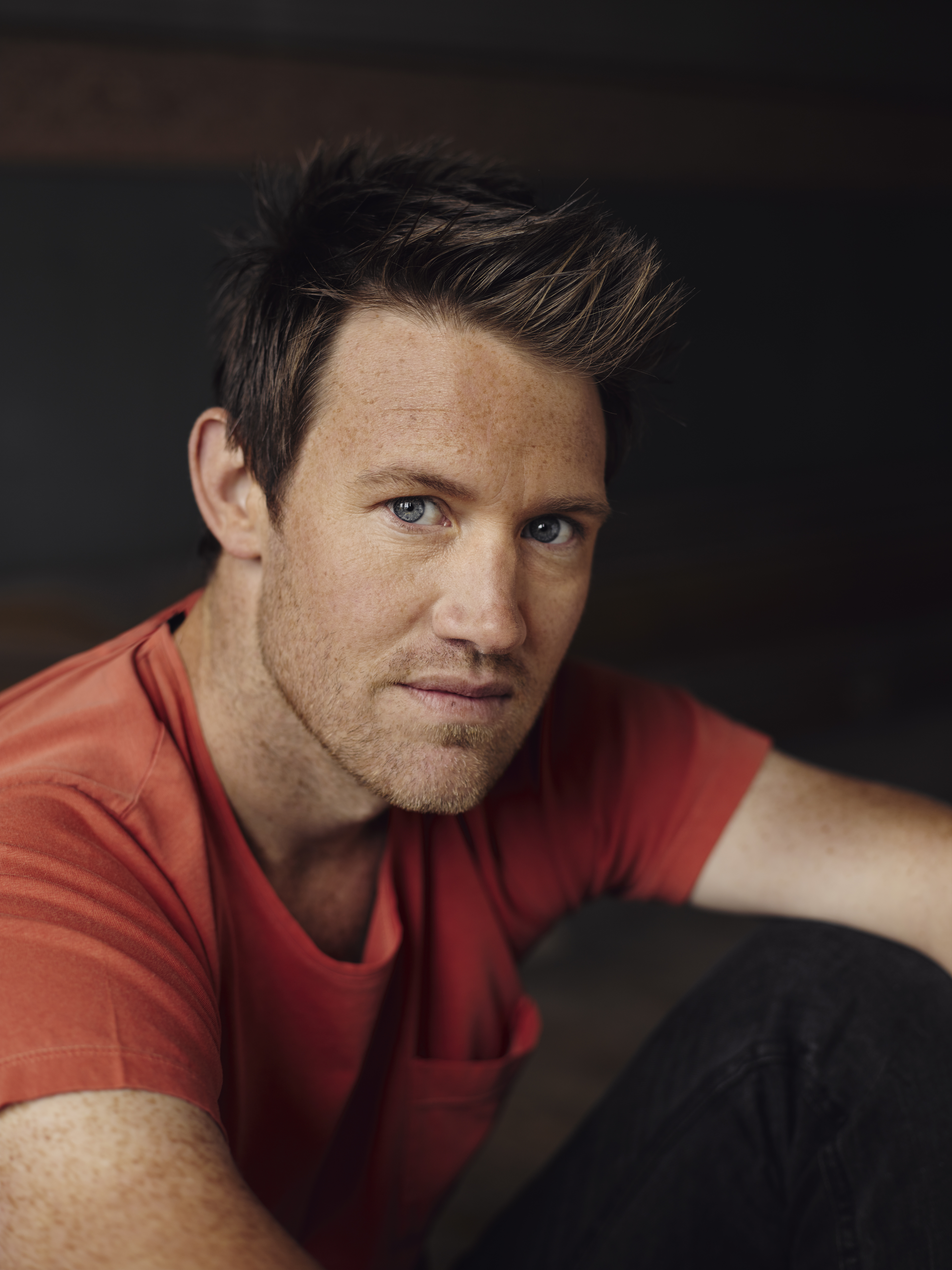 Eddie Perfect is an Australian singer-songwriter, pianist, comedian, writer and actor. Photography by John Tsiavis.